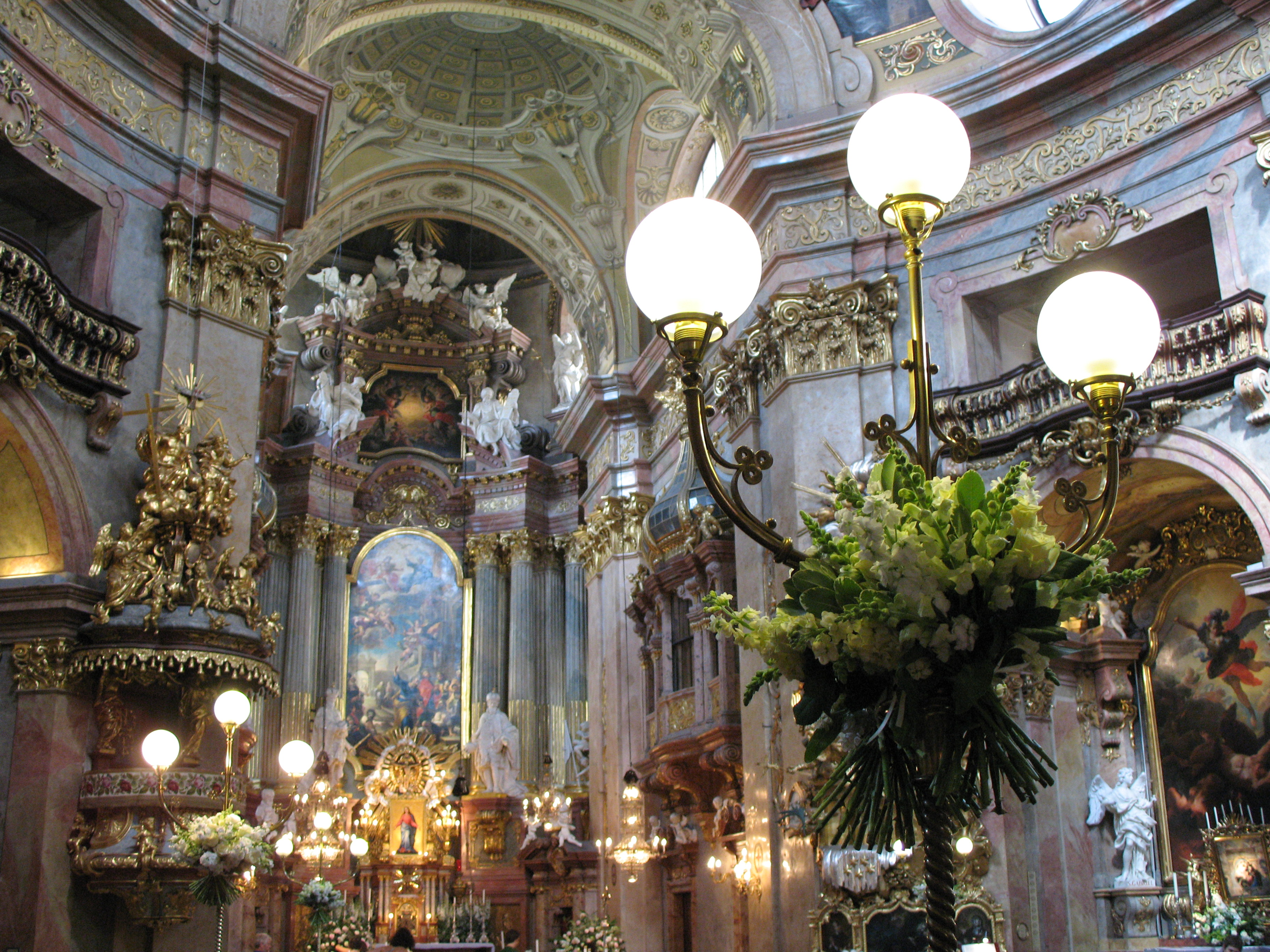 St. Peter's Church, Vienna, Austria